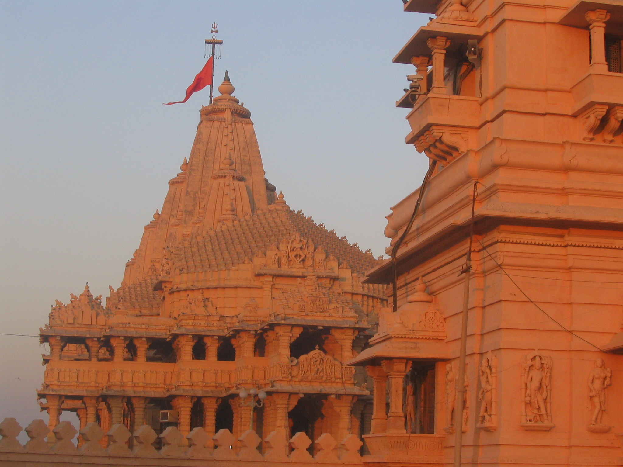 Closest leagal shot possible of Somnath for a visitor